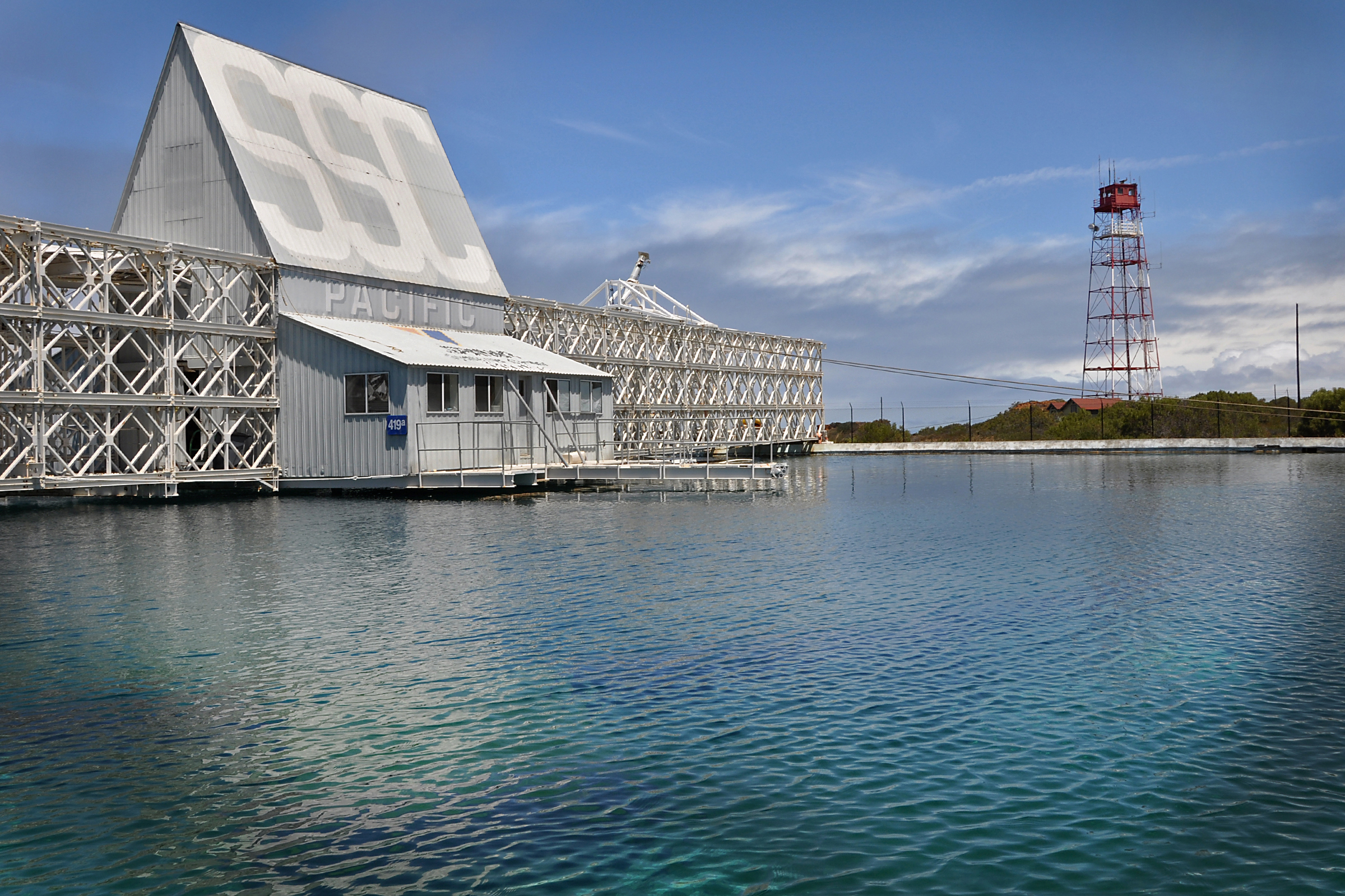 SAN DIEGO, (June 24, 2013)The TRANSDEC pool, is a one-of-a-kind facility that simulates an ocean of water and provides ideal conditions for research at Space and Naval Warfare Systems Center Pacific (photo by Alan Antczak/released) (Photo by Alan Antczak/Released) 130624-N-YN244-005